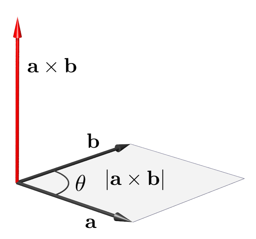 Cross product